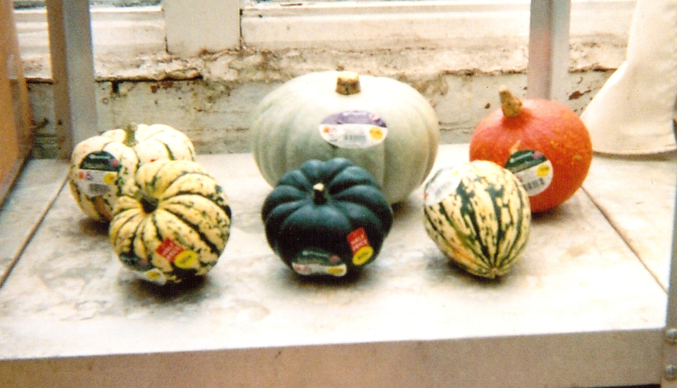 Squashes and a pumpkin bought in the UK.